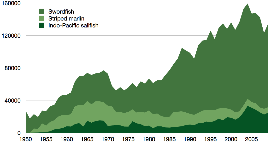 Global capture of principal billfish species in tonnes, 1950–2009. Based on data sourced from FAO Species Fact Sheets.